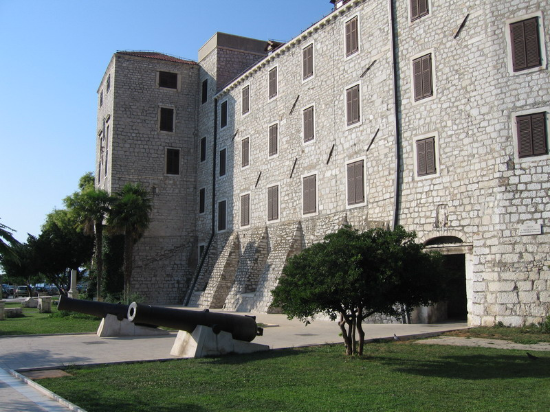 Cannons in Šibenik